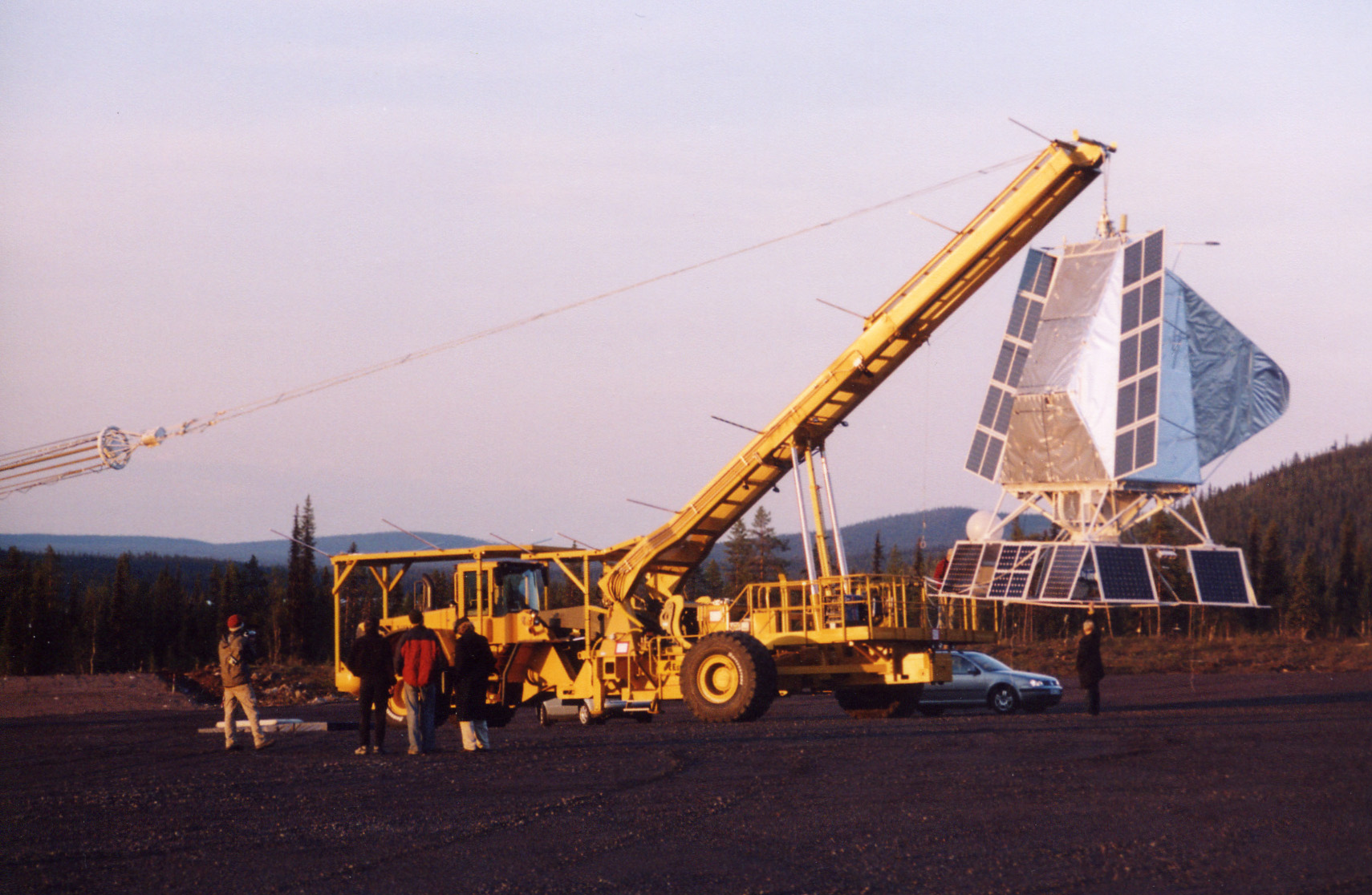 BLAST (the Balloon-borne Large Aperture Sub-millimetre Telescope) on Hercules, the Esrange balloon launch vehicle a few hours before launch at 1:10 UTC on June 12 2005.